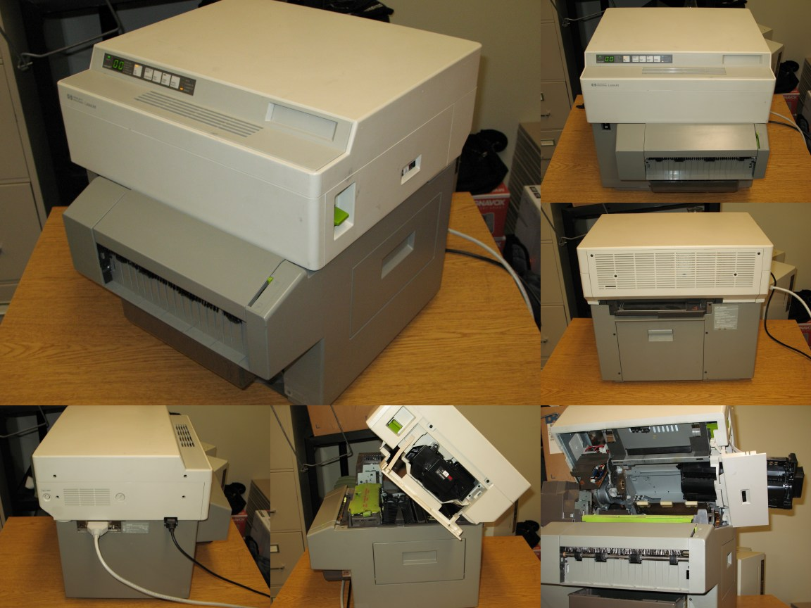 Six views of the HP LaserJet 500 Plus (model 2686D), the biggest cousin to the original HP LaserJet. The original LaserJet only accepted a 250-sheet paper tray, while the 500 Plus added two 500-sheet trays, permitting two different paper sizes to be automatically fed to the printer. NOTE: I am missing the paper output tray which sticks out in front about 12 inches, and the single-sheet feeder tray which hangs about 8 inches out the back. This means that the printer normally consumes an even more ridiculously large amount of desk space than you see here. Obsolete printer obtained from the SWAP Surplus Store at the University of Wisconsin - Eau Claire, and photographed by me with a Canon Powershot A640, cropped with Corel PhotoPAINT 7. - Dale Mahalko, Gilman, WI, Aug 12, 2007